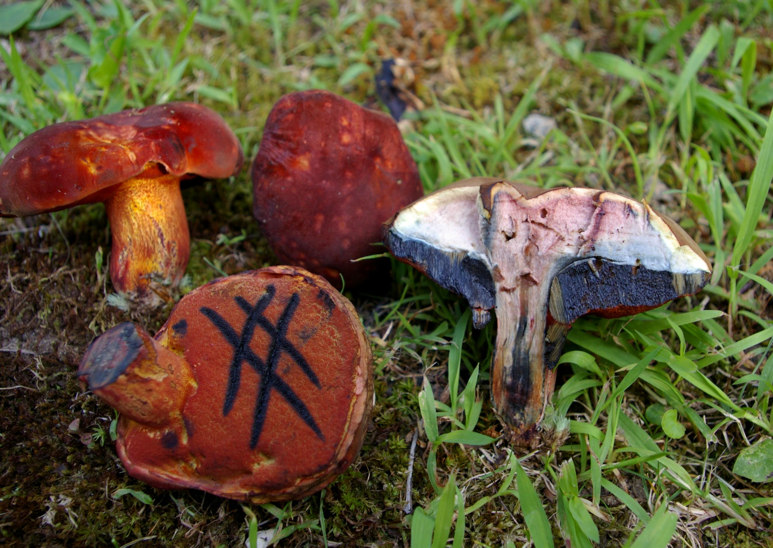 Fruit bodies of the bolete mushroom Boletus rubroflammeus A.H.Sm. & Thiers. Specimens found in Hadlyme, Connecticut, USA.